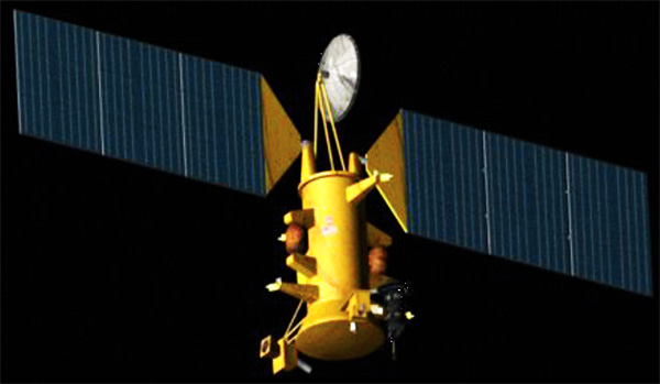 The orbiter of the Mars Trace Gas Mission (TGM) planned to be launched in 2016.